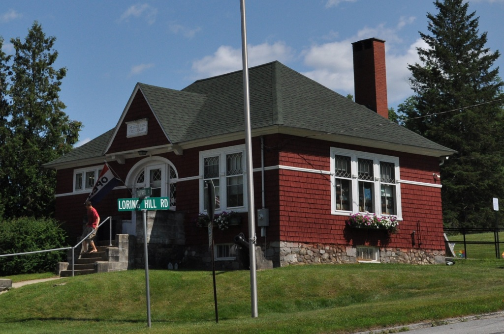 Zadoc Long Free Library, Buckfield, Maine. This library was a gift from Buckfield native John Davis Long.